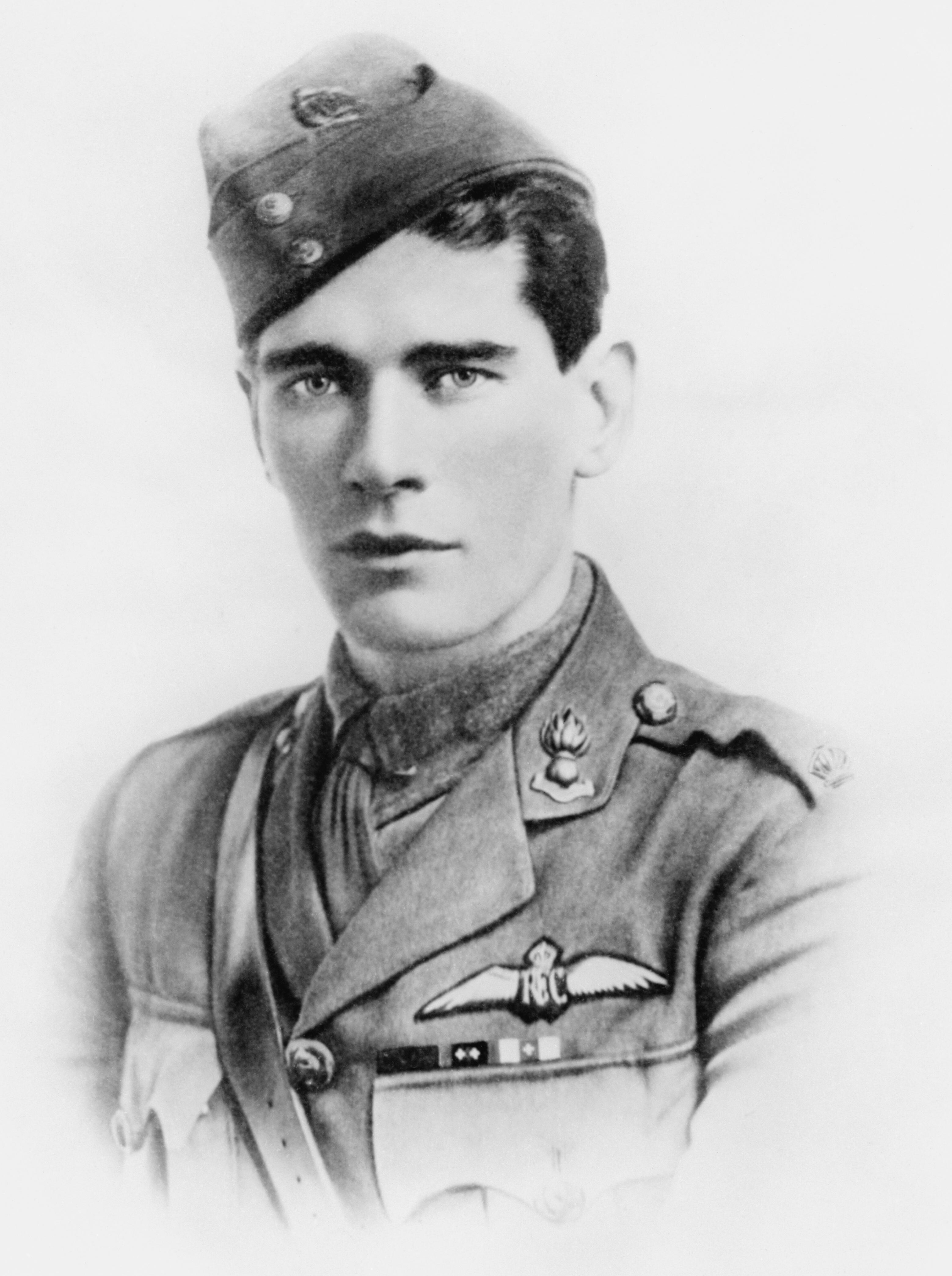 English flying ace and Victoria Cross recipient Edward Mannock in flying gear.